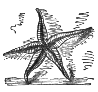 A starfish with 5 legs. Used as an illustration of "Hope in God", a poem by Lydia Sigourney which appeared in Poems for the Sea, Hartford: H.S. Parsons & Co., 1850. Page 101.